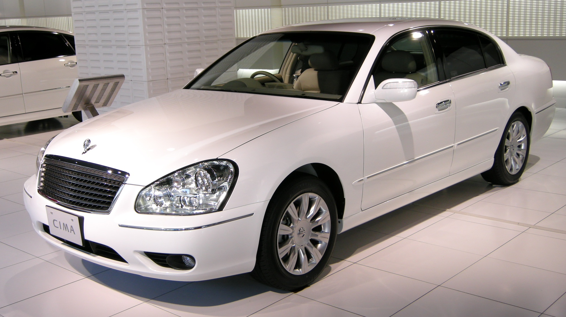 2008 Nissan Cima photographed in Nissan Gallery (Ginza, Tokyo)